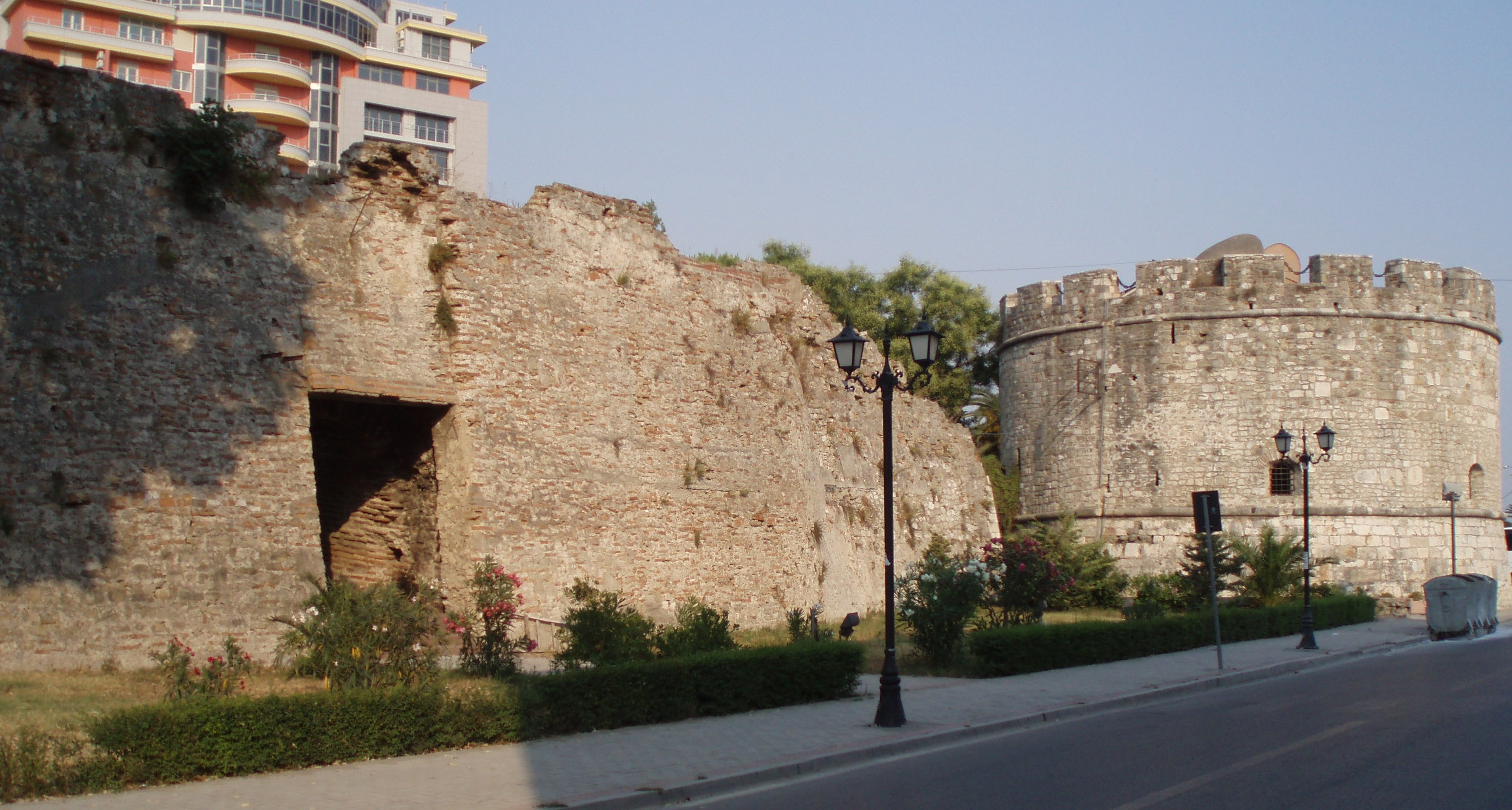 The old city wall in Durrës, Albania.